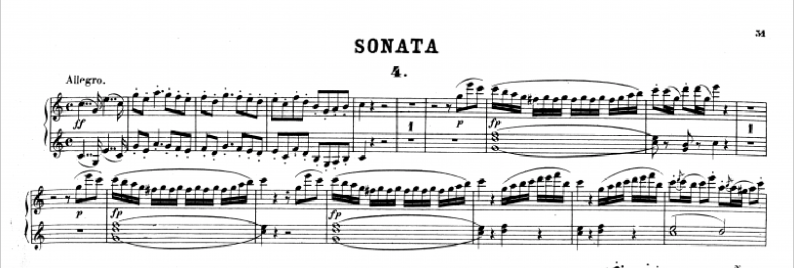 This is the the opening measures of the Primo part for the first movement of Mozart's piano duet sonata in C major, K. 521.